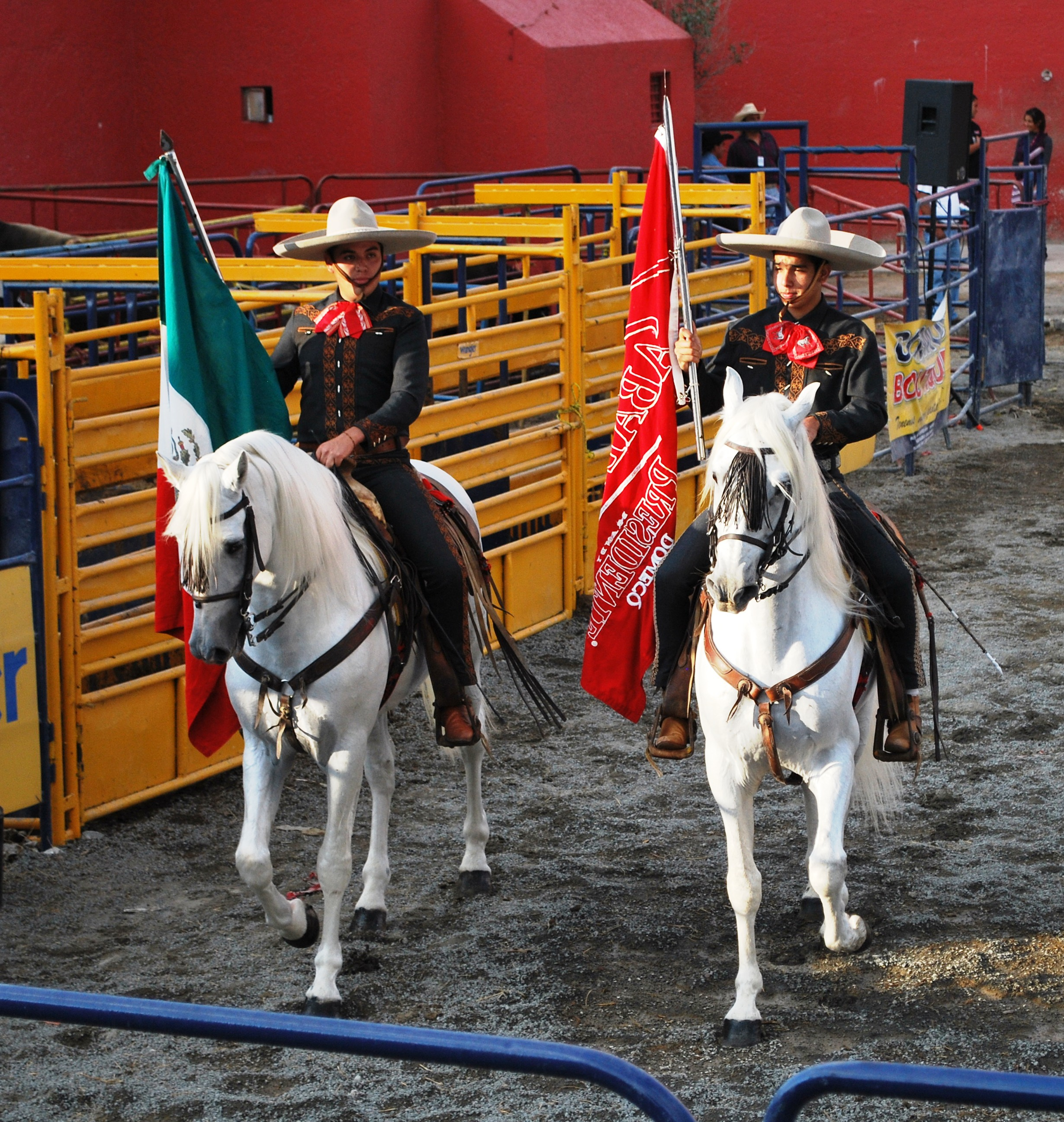 Charros with flags at the beginning of the charro horse show at the Feria de Hidalgo in Pachuca, Hidalgo